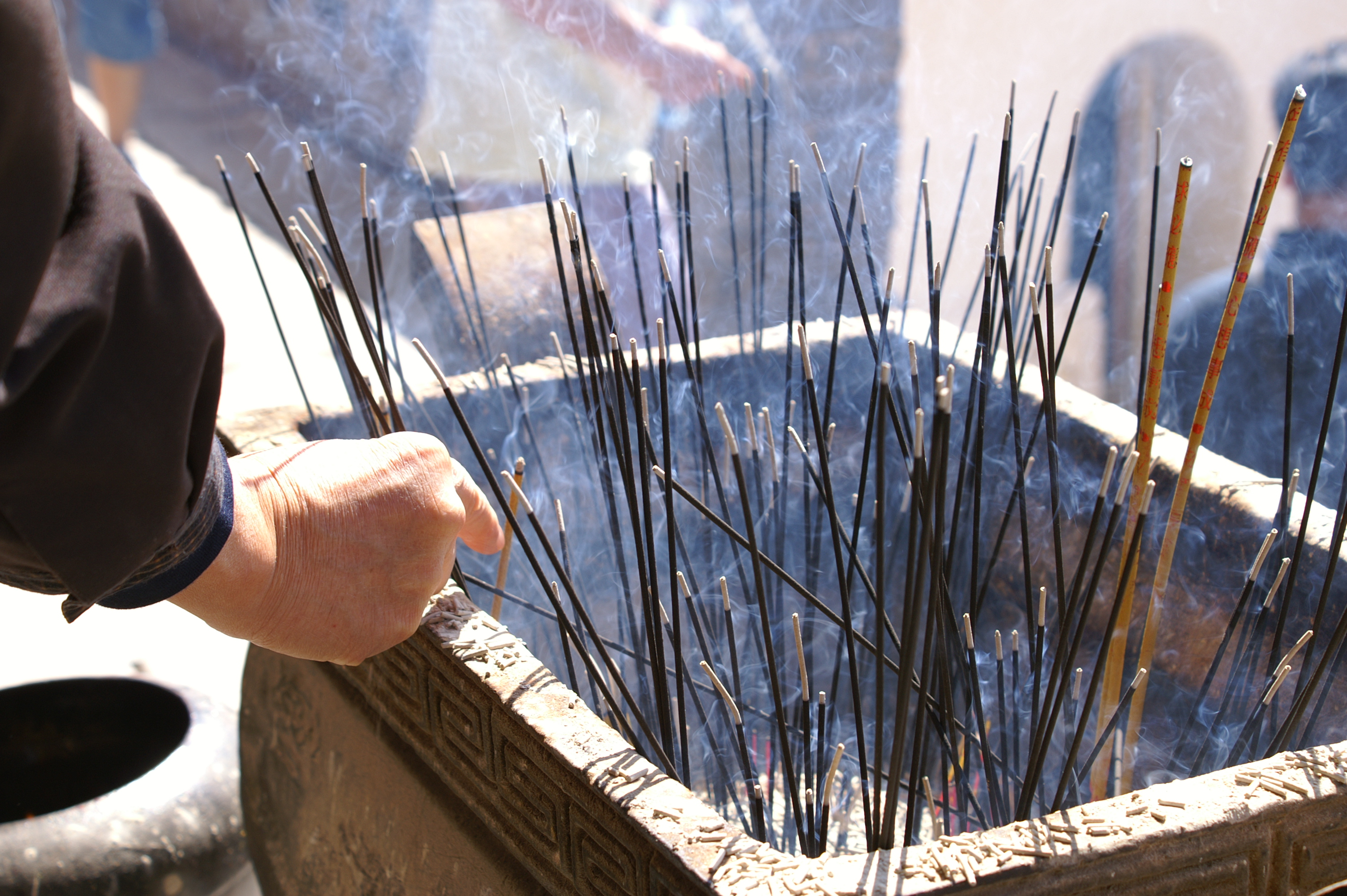 Burning incense sticks at Mount Wutai, China.